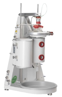 Image from Syrris Ltd from: The Lara coflux system is developed by Syrris in collaboration with Radleys and Ashe Morris.